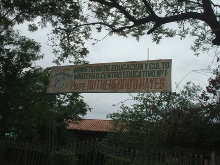 Escuela Rutherford B. Hayes